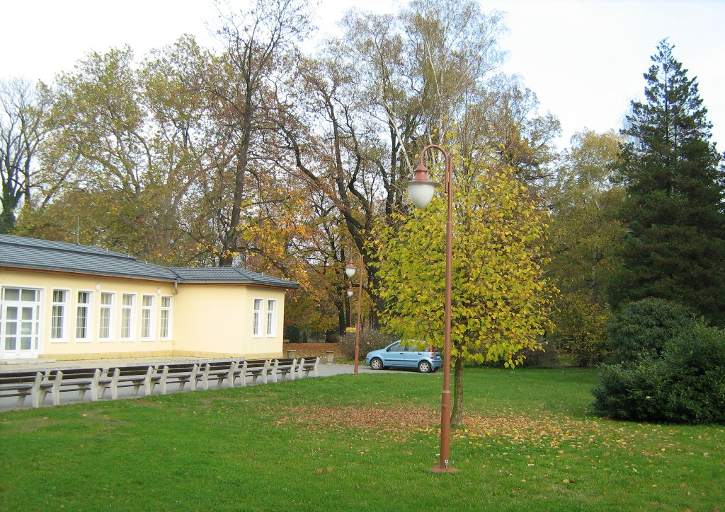 Entrance of the park in Třebovice, Ostrava, CZ